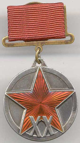 Obverse of the Jubilee Medal "20 Years of the Armed Forces of the USSR".